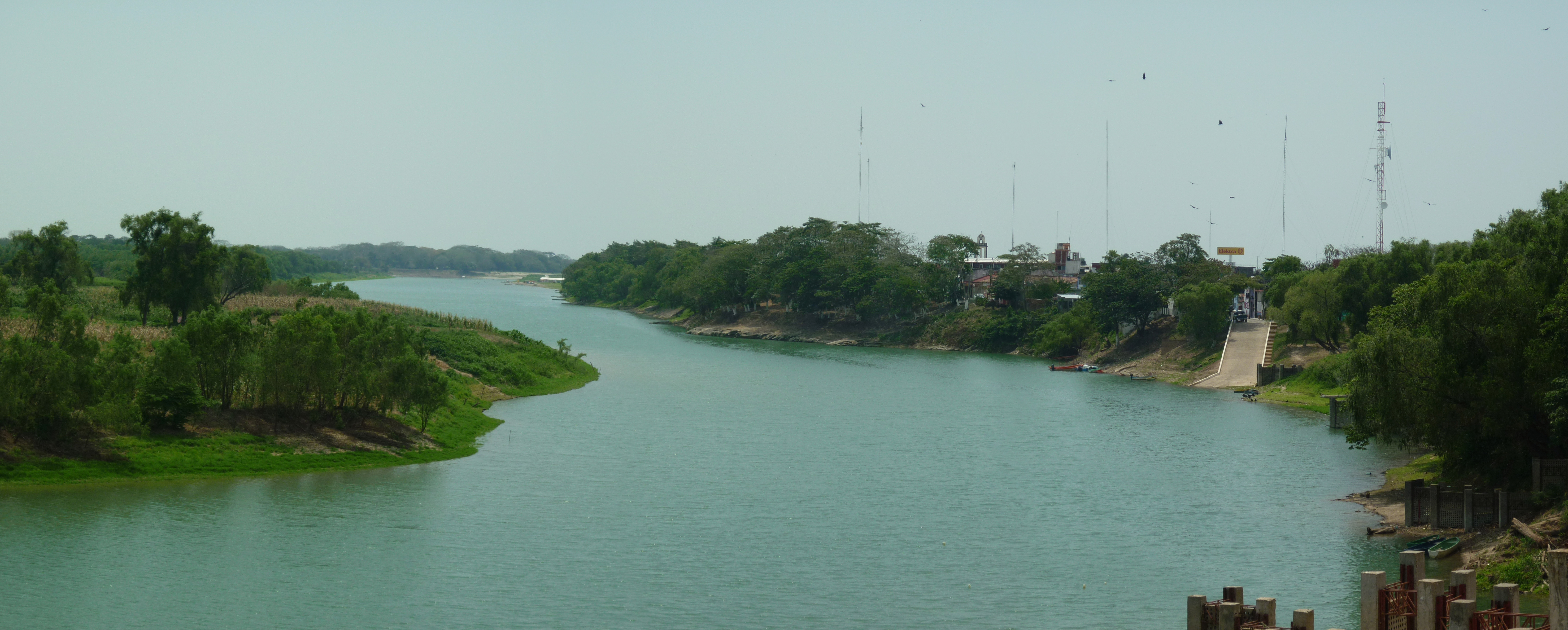 River Usumacinta rises in the highlands of the Sierra de Chama Department of El Quiché, Guatemala, and empties into the Gulf of Mexico. Its length is 560 km. It is the largest river in Mexico and Guatemala. The image shows passing through the city of balance.